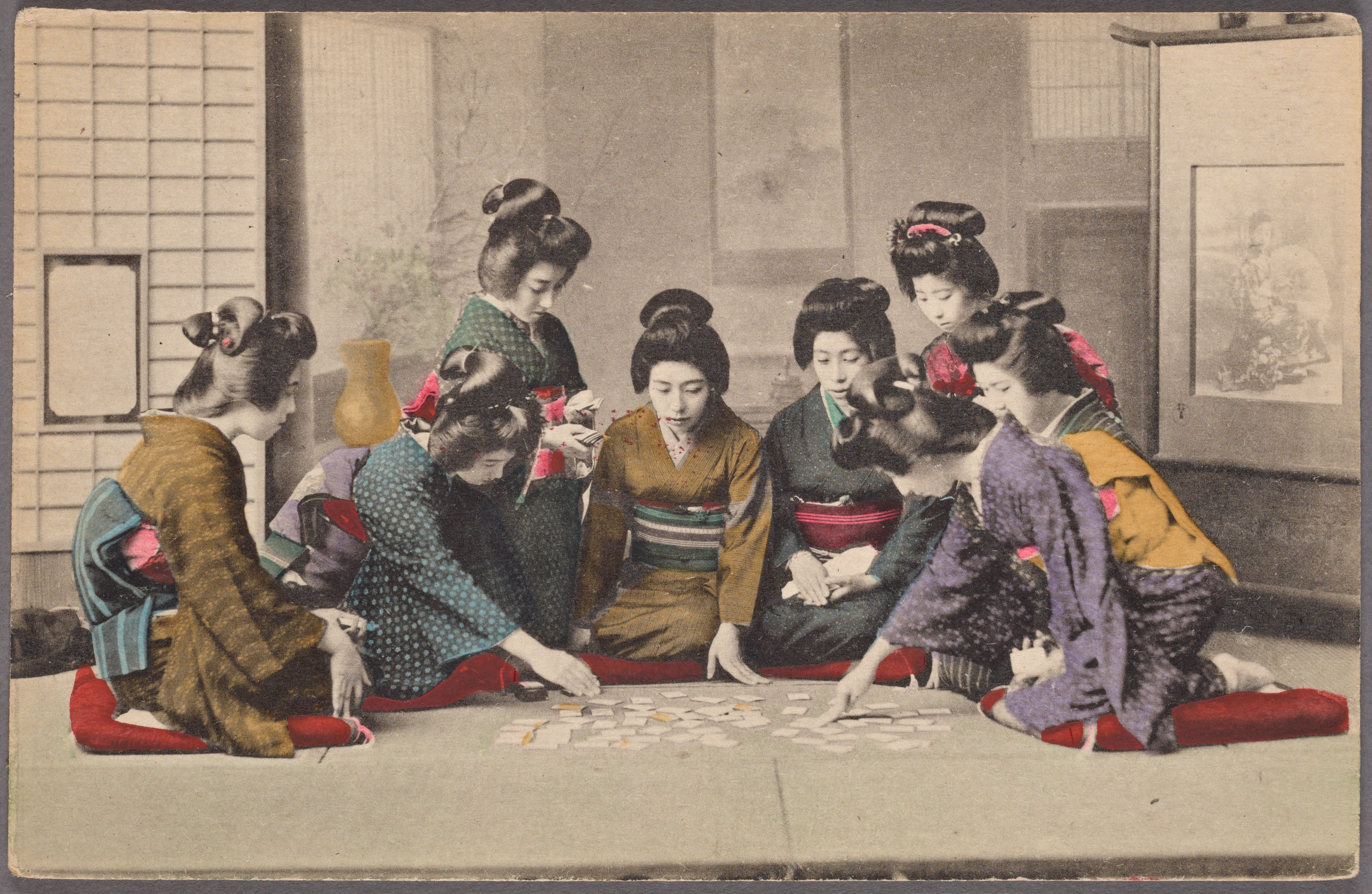 Girls playing Uta-garuta.